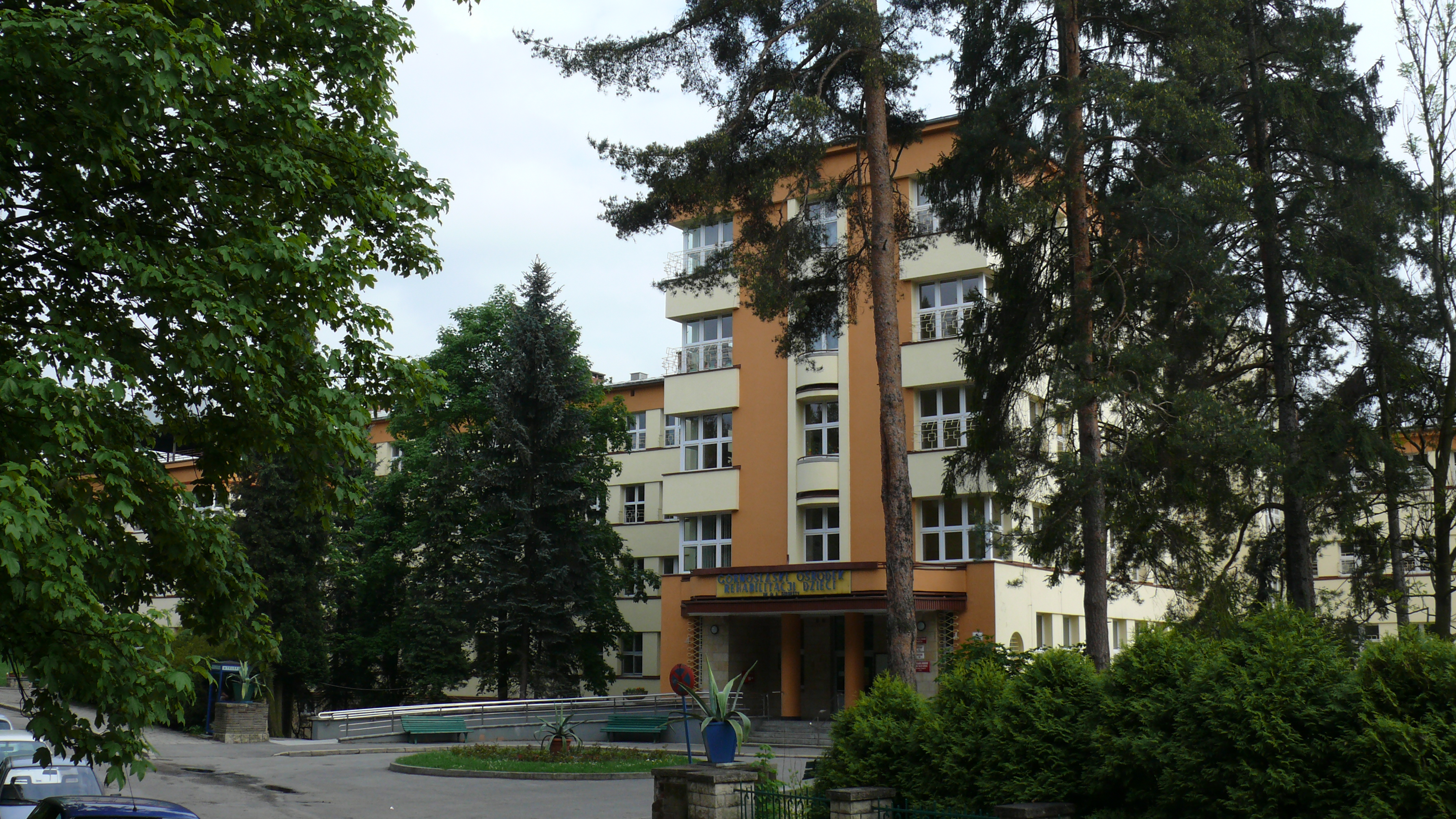 Sanatorim for childrens in Rabka Zdrój (Poland)